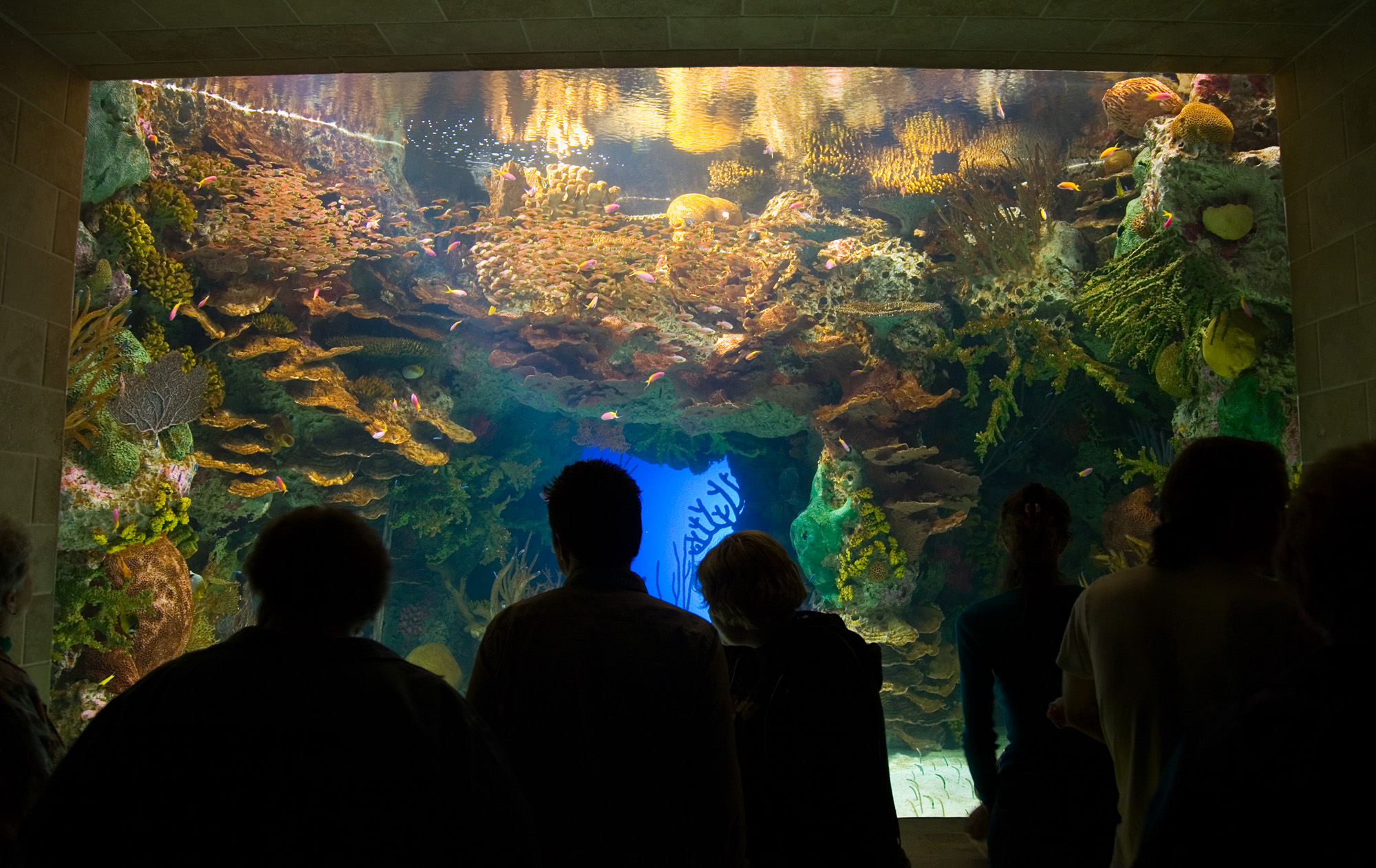 Georgia Aquarium Tropical Tank. Taken by myself with a Canon 5D and 24-105mm f/4L IS. ISO 1600.